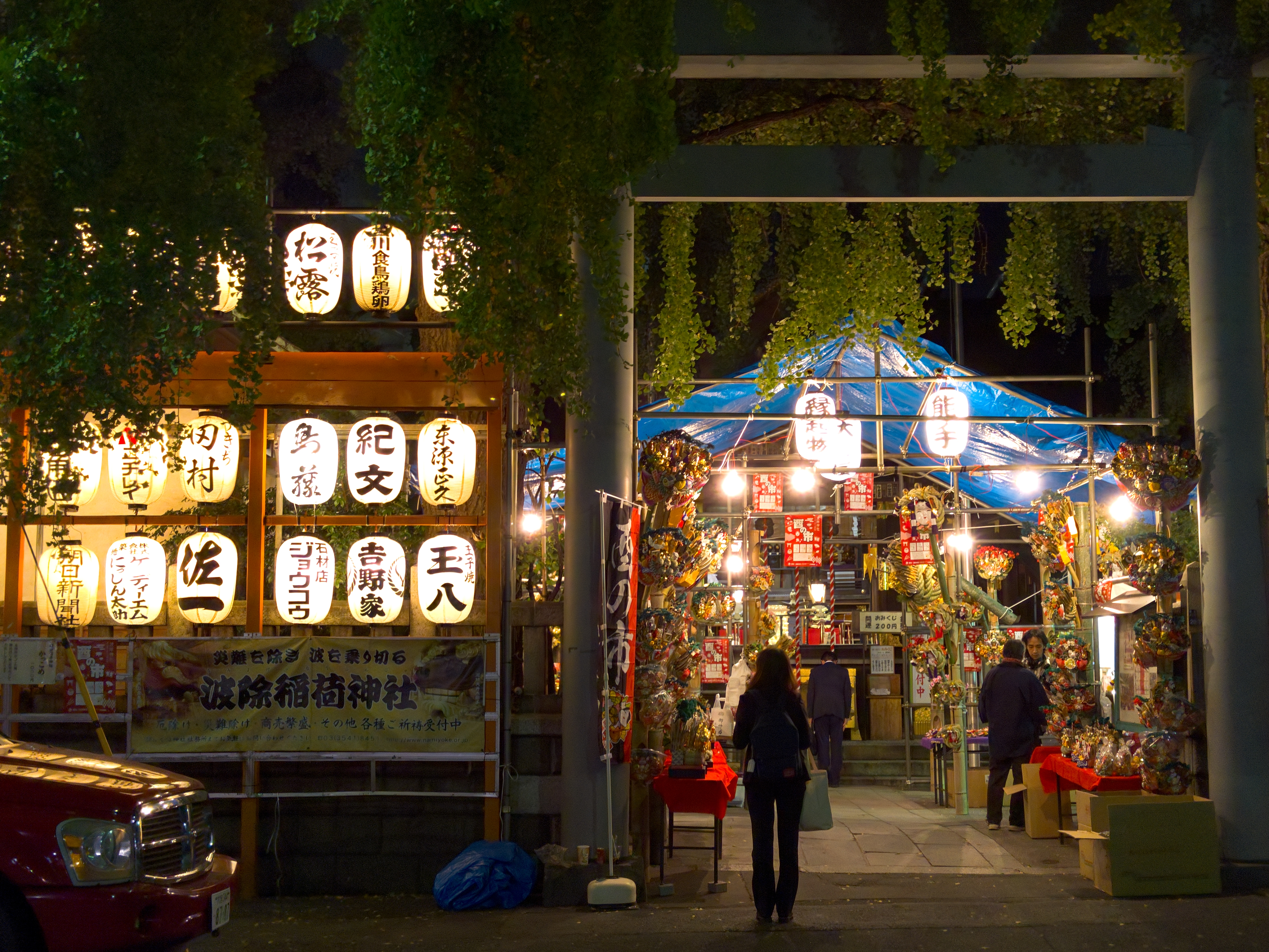 Namiyoke-inari-jinja in Chūō, Tokyo.